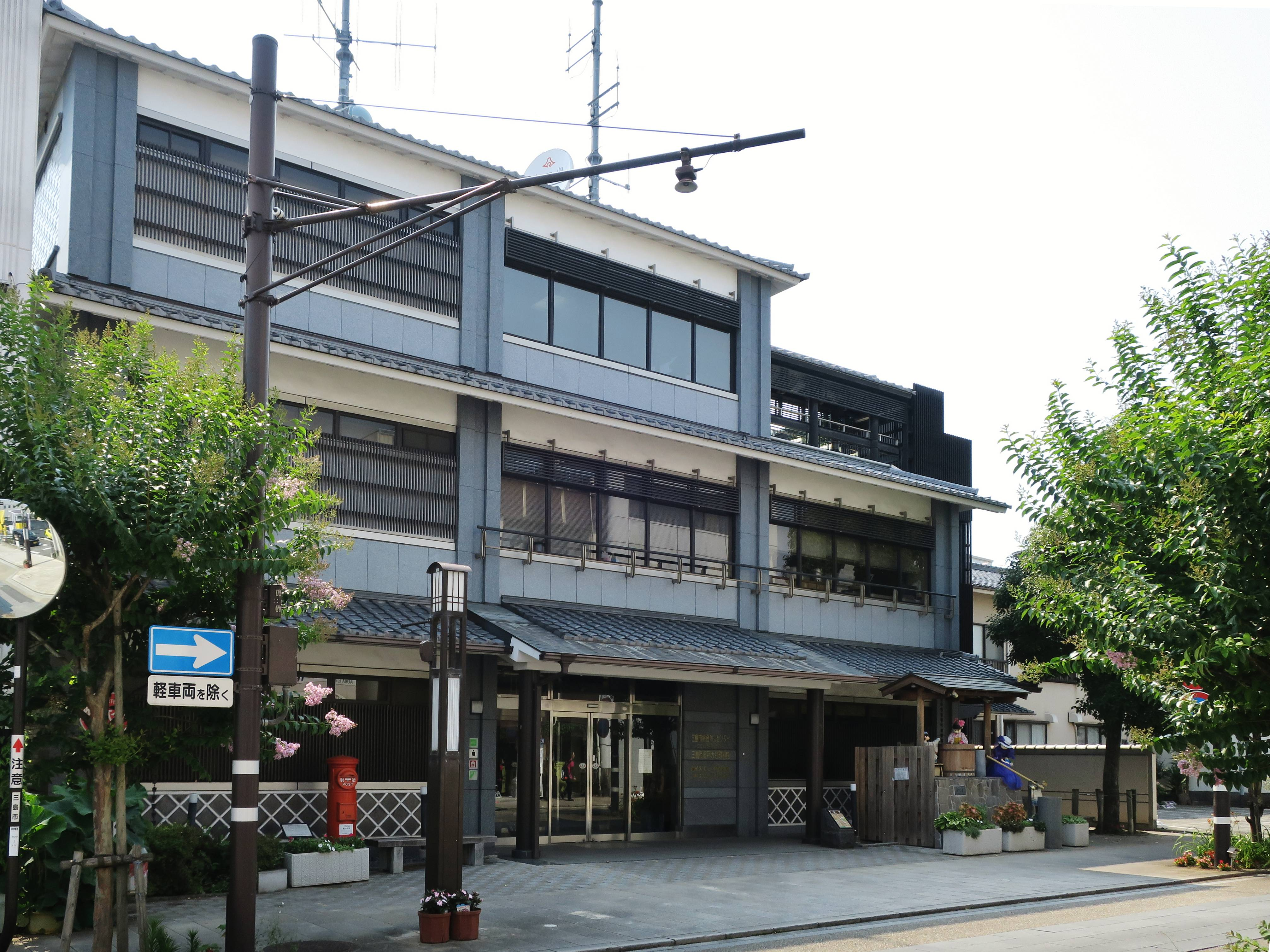 Mishima city Taishacho branch office.